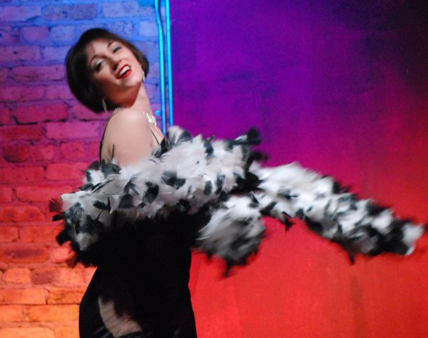 Michelle L'amour, burlesque performer. Chicago 2007. Photographed by MattHucke(t), 20 June 2007.